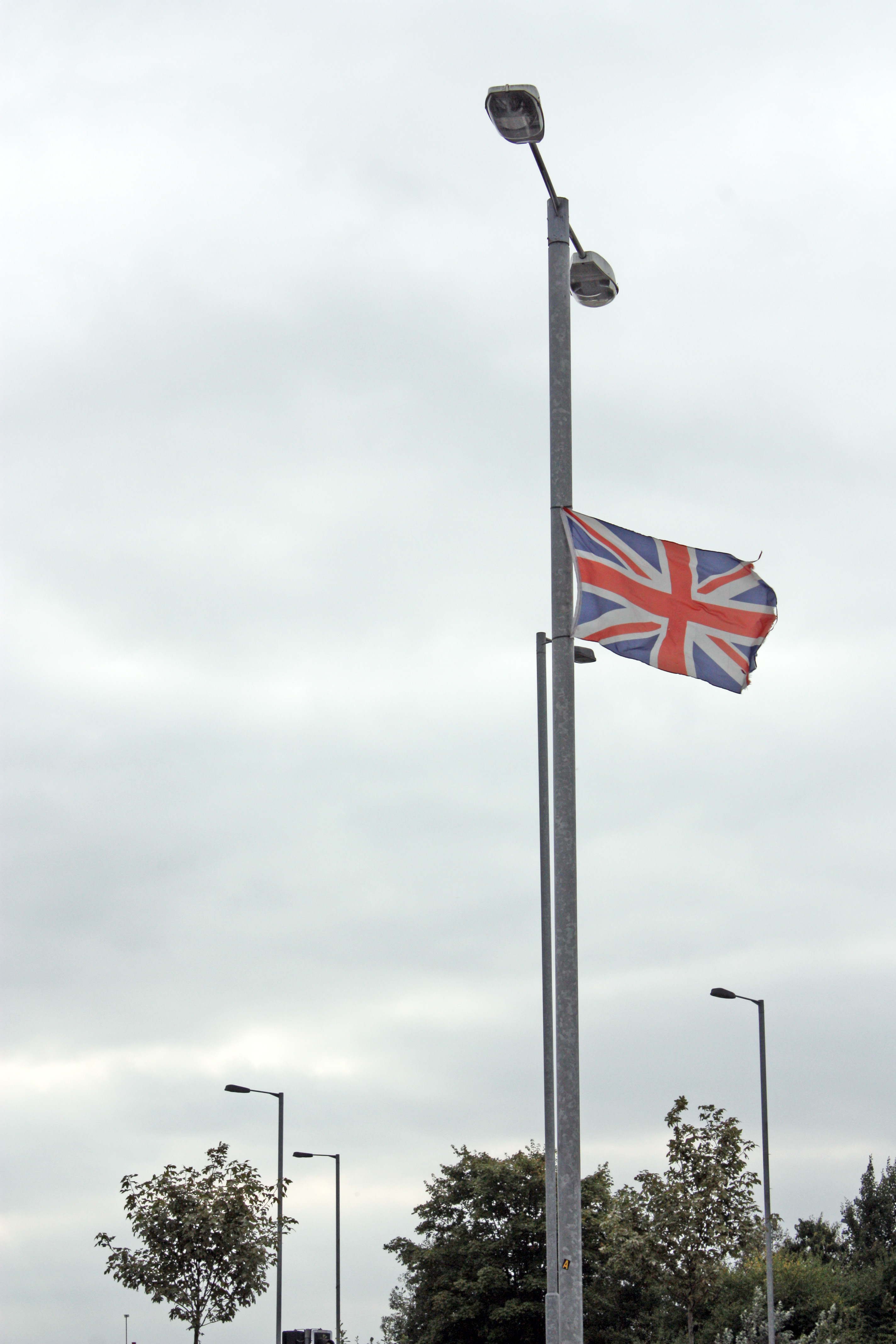 Car park, Magowan West shopping centre, West Street, Portadown, County Armagh, Northern Ireland, September 2009